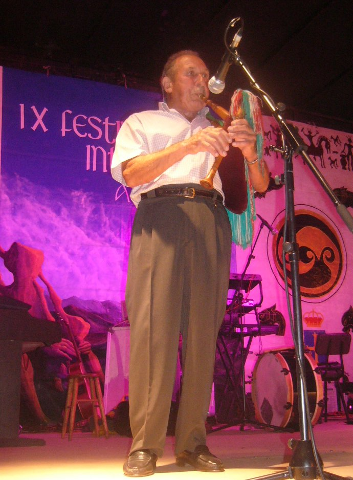 El Gaiteru de Veriña playing asturian bagpipe in IX Interceltic Festival of Avilés (22. Jul. 2005)